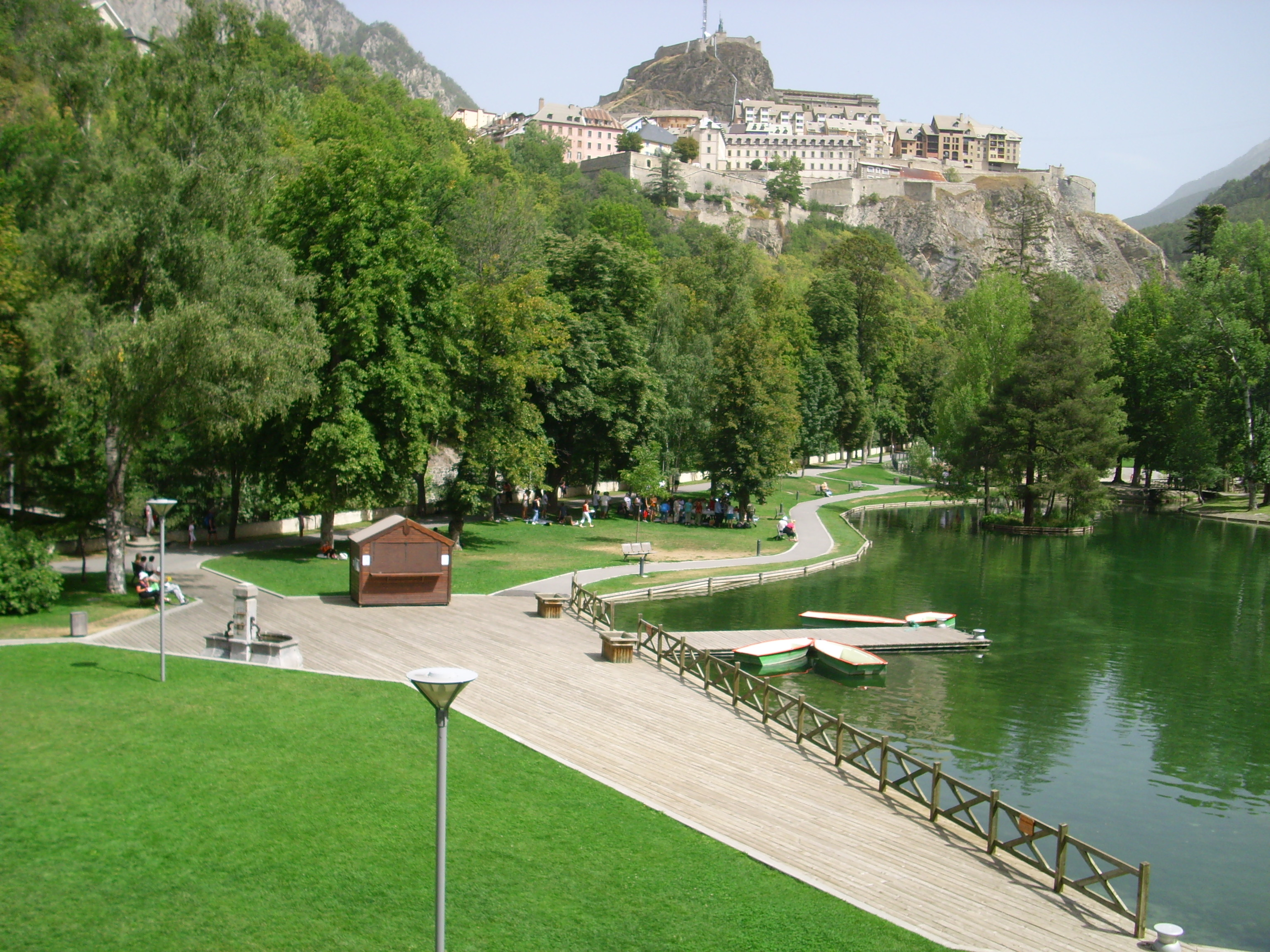 Parc de la Schappe, Briançon, Hautes-Alpes, France